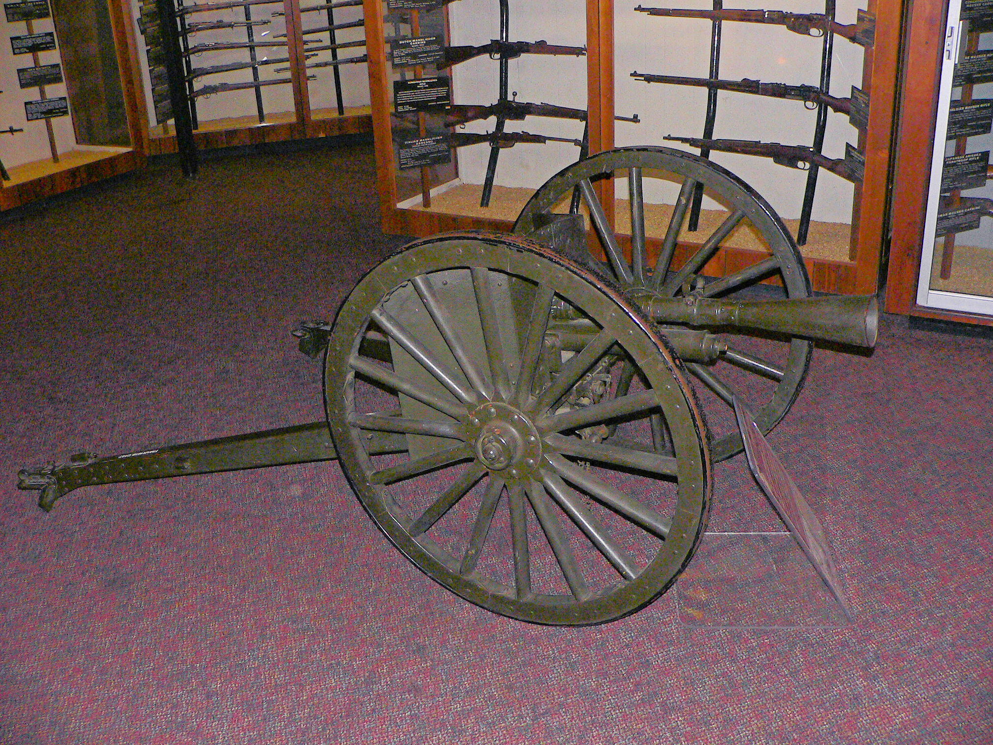 Picture taken by myself, Mark Pellegrini, at the United States Army Ordnance Museum (Aberdeen Proving Ground, MD) on August 14, 2007.